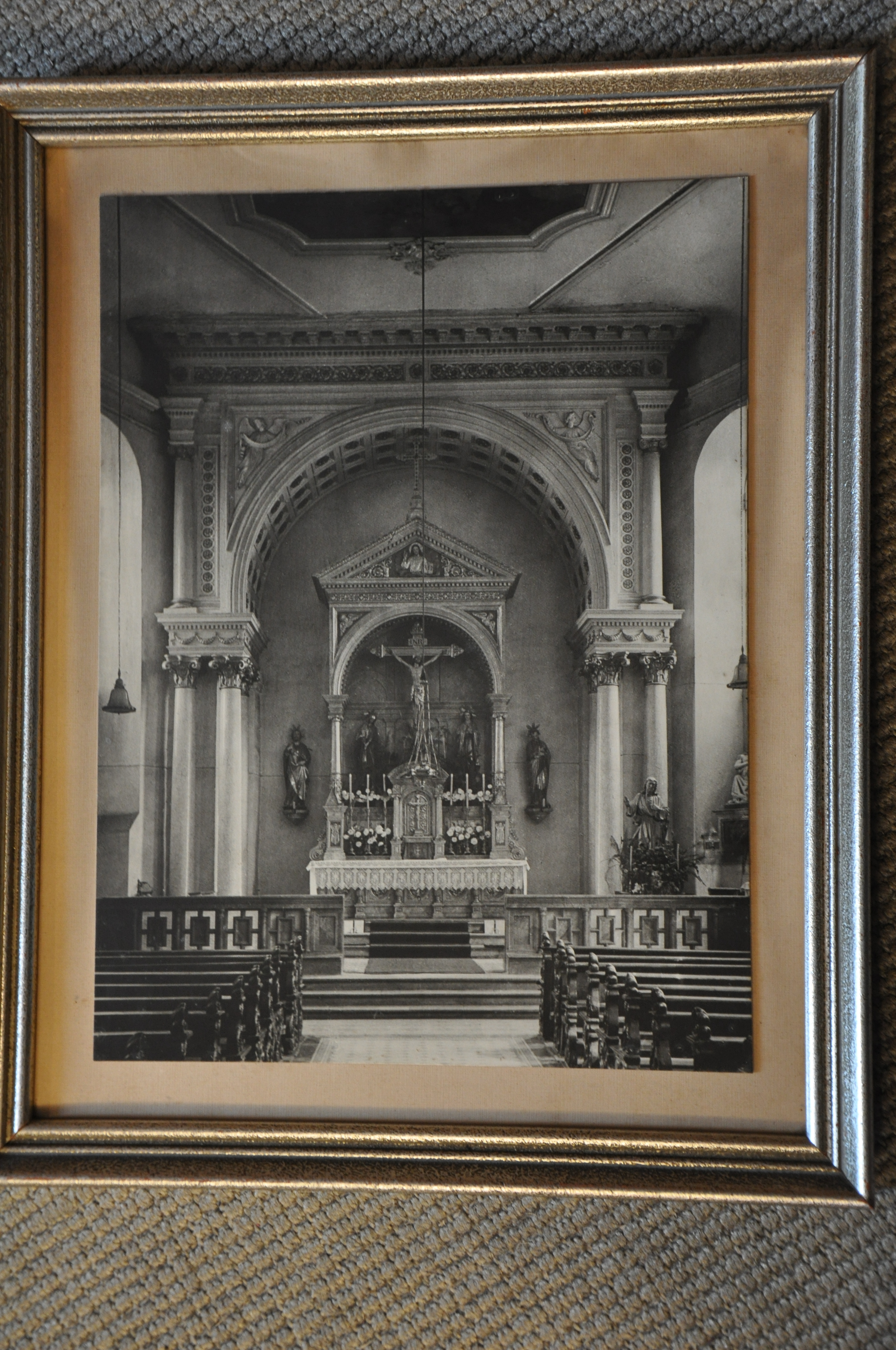 Laurentiuskirche (Dirmstein) Dirmstein: catholic altar changed in 1884/85, historic image in the vestry